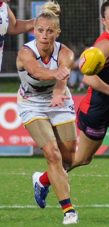 Erin Phillips handballing to Dayna Cox during the AFL Women's round six match between Adelaide and Melbourne on 11 March 2017 at TIO Stadium in Darwin, Northern Territory